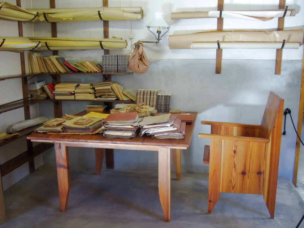 Antoni Gaudí's atelier at the Sagrada Familia (reproduction)